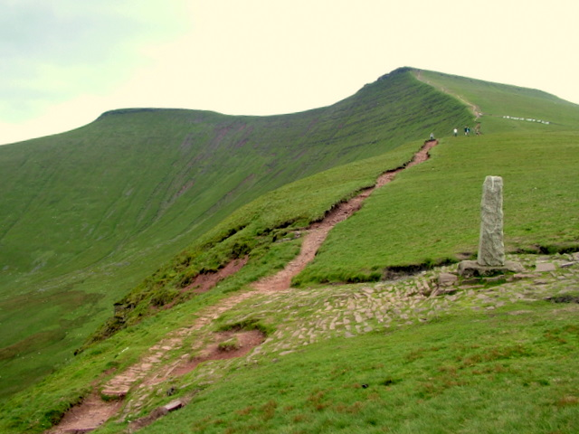 Tommy Jones Obelisk Erected in memorial to the five-year old boy who died here in 1900 when he lost his way. Pen y Fan can be seen to the left and Corn Du to the right.